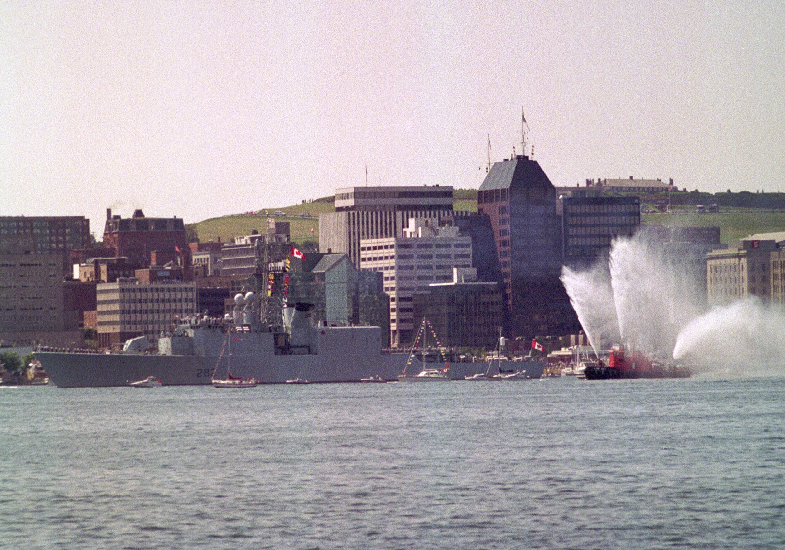 Departing for the Persian Gulf as part of the Coalition forces. A stirring and emotional sight, watching ships going to war. Halifax, Nova Scotia Canada - August 1990.